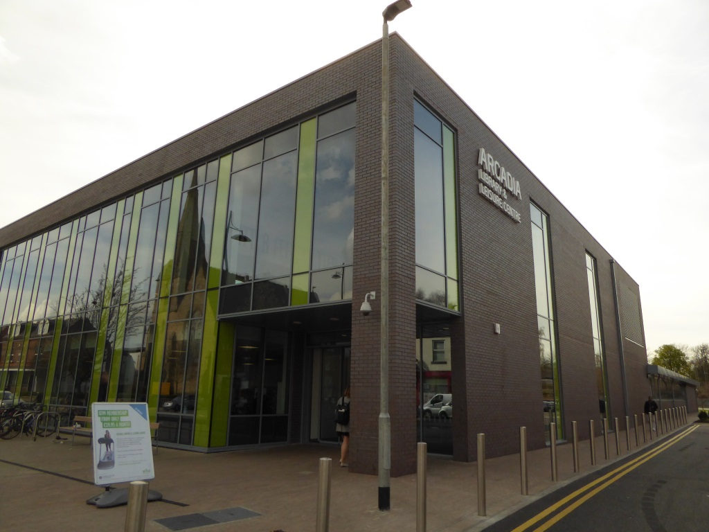 The new library that opened in 2016, replacing the old carnegie building. The library is the front part of the ground floor, gym upstairs and pool out back. Absolutely packed when we visited, all chairs and PCs in use, group of teens playing a domino tournament, lots of parents and children. Visited by members of the Taskforce team. Photo credit: Julia Chandler/Libraries Taskforce